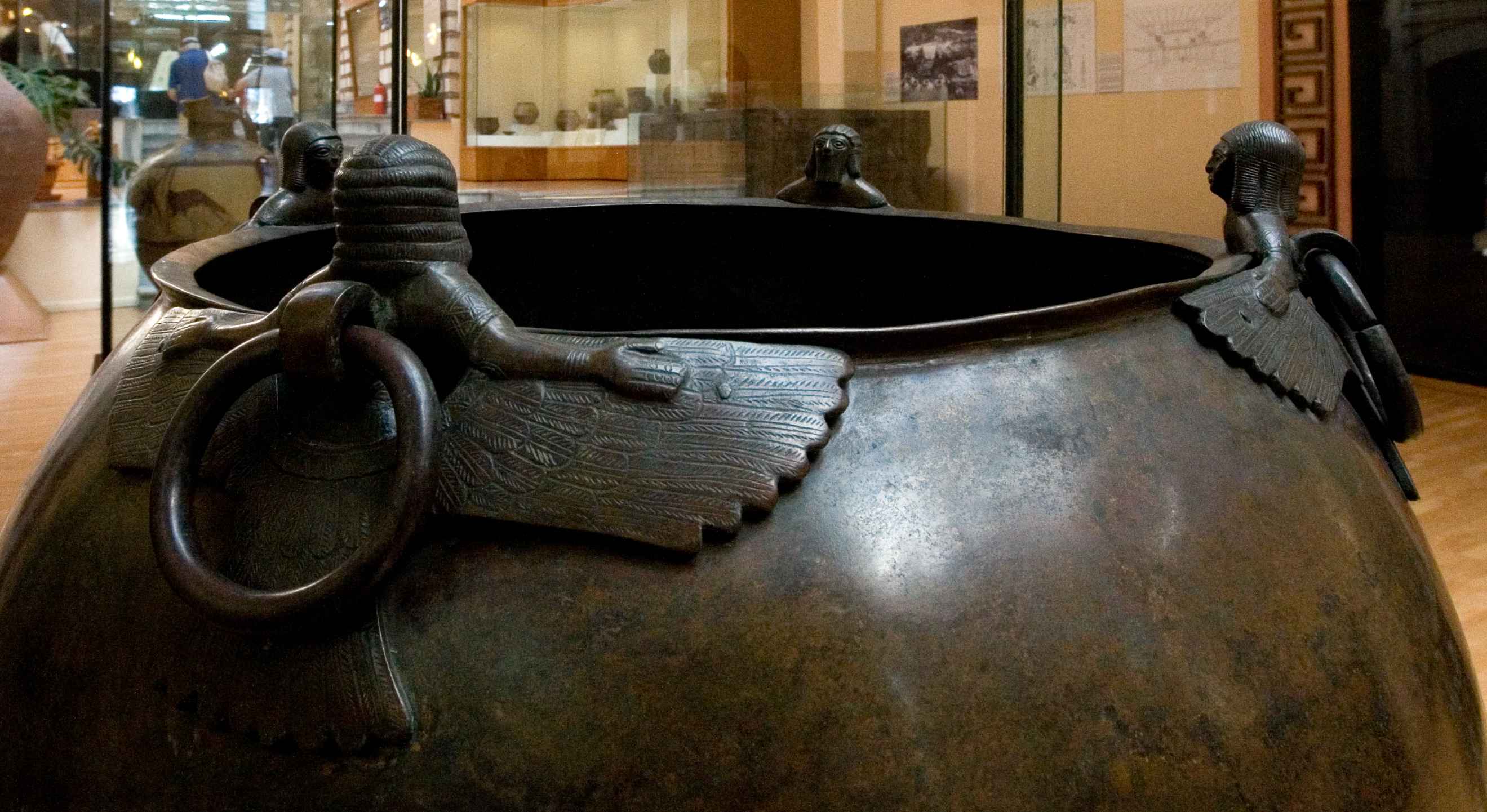 Phrygian cauldron, height 51.5 cm, from the Great Tumulus of Gordion, end of the 8th century BC. Museum of Anatolian civilizations, Ankara.